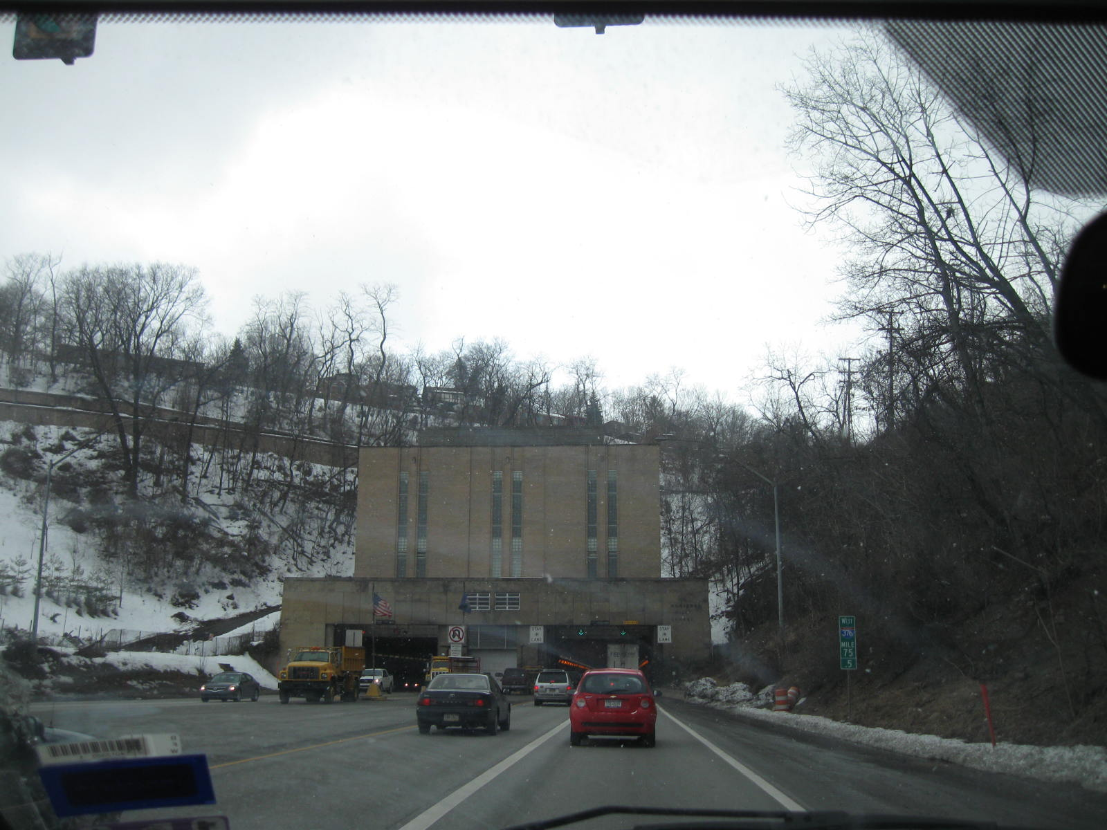 East Portal of Squirrel Hill Tunnel on I-376 east of Pittsburgh, Pa in the snow.